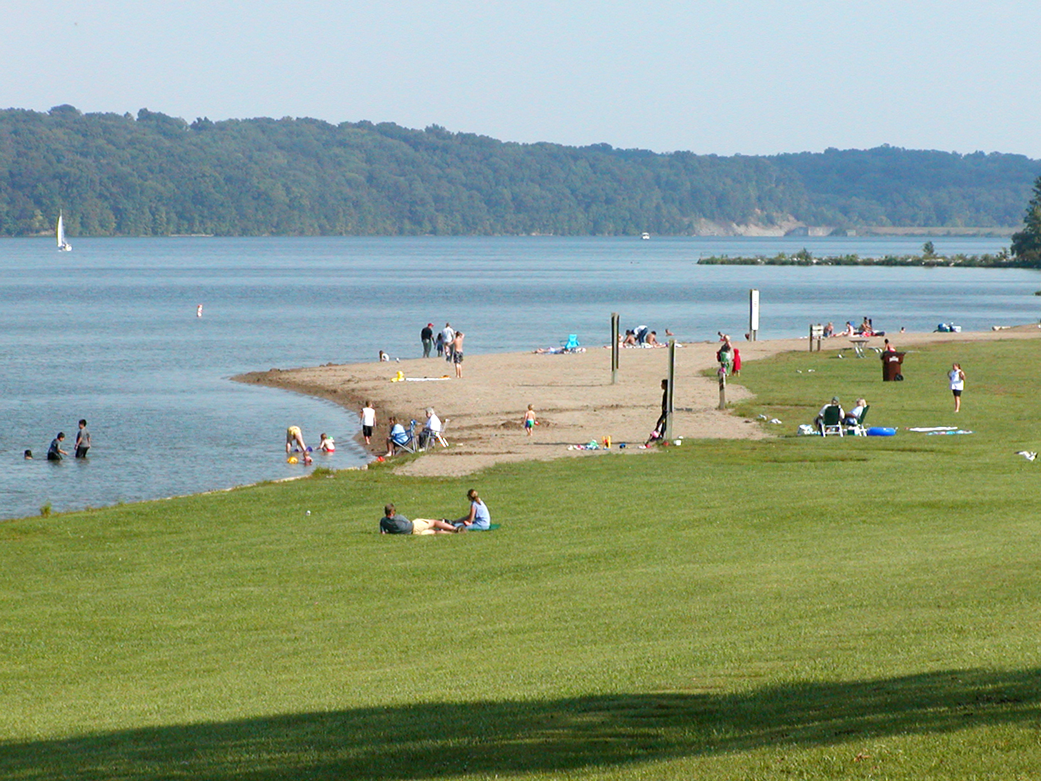 Acton Lake at Hueston Woods.